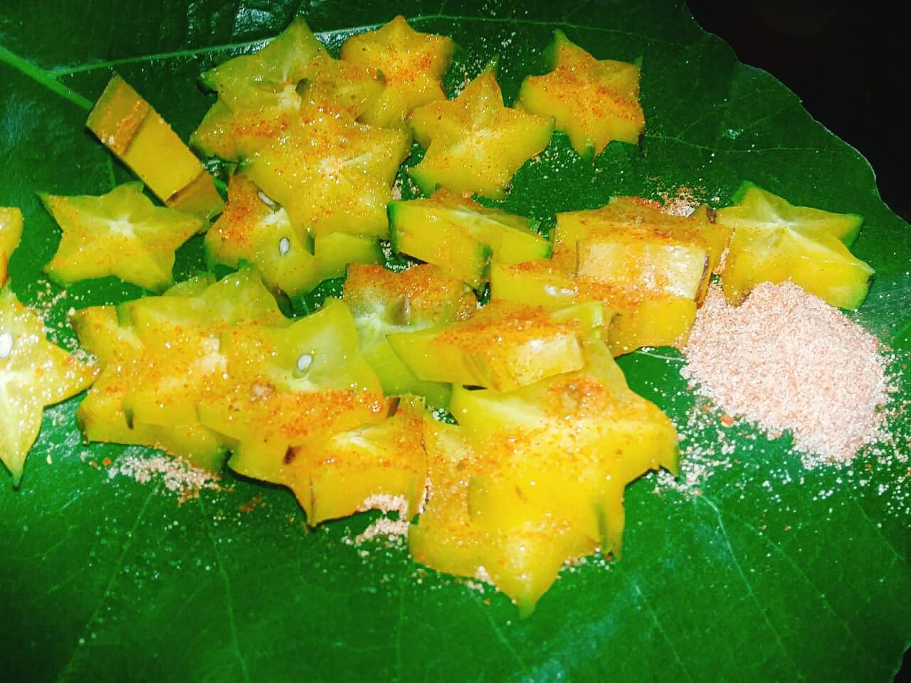 Sliced Indian Carambola Star fruit with Indian spices